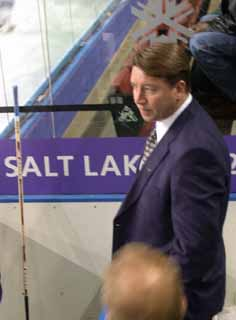 Jari Kurri : 5 time Stanley cup champion, olympic bronze medalist and inducted into the hall of fame.